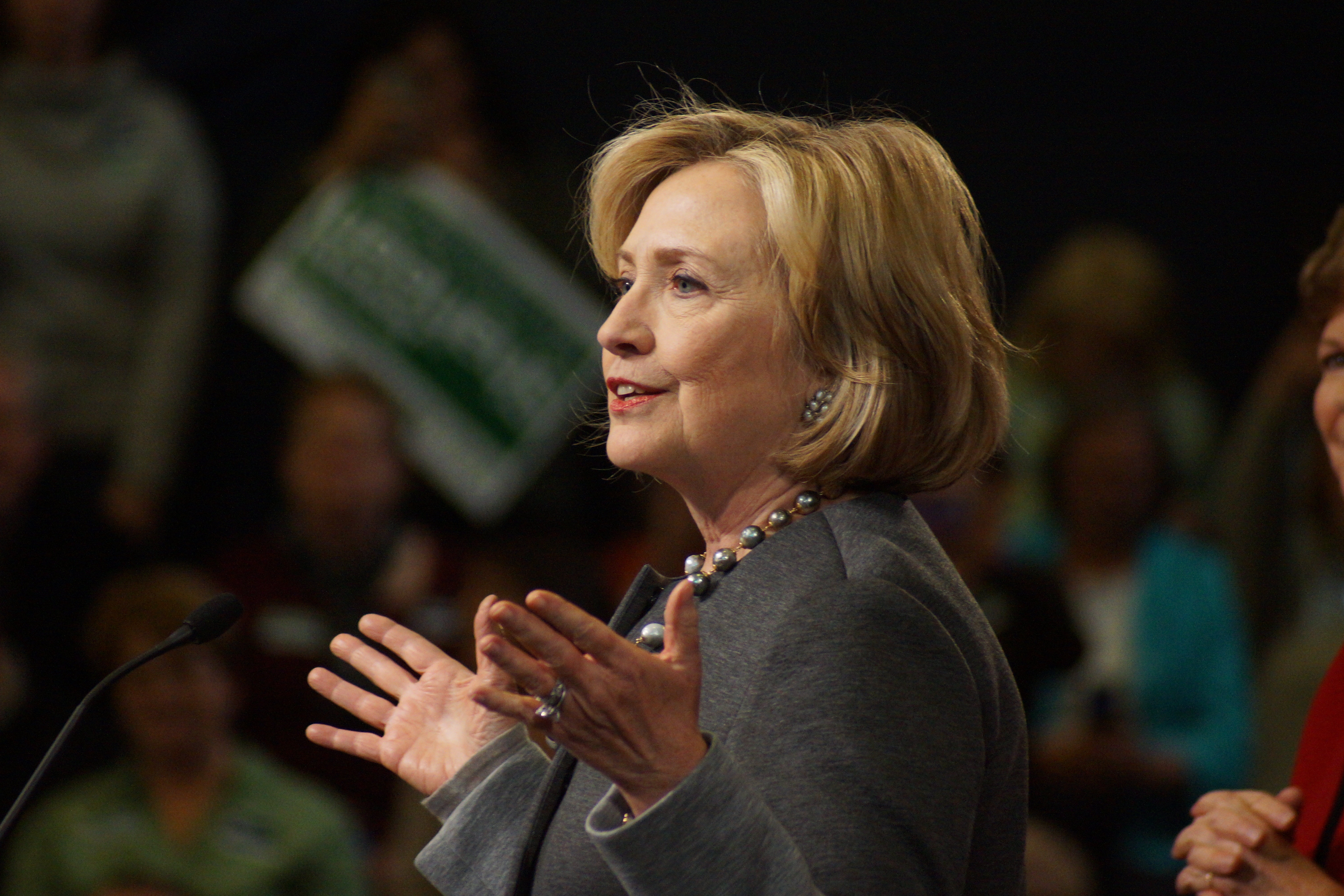 Hillary Clinton in a campaign event of Senator Jeanne Shaheen (D-NH).